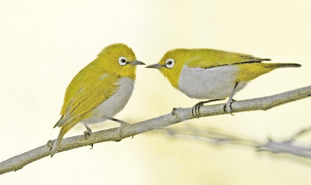 A rare capture of the white-eye pair